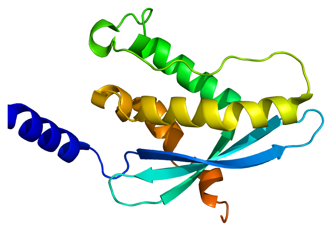 Structure of the NCF4 protein. Based on PyMOL rendering of PDB 1h6h.